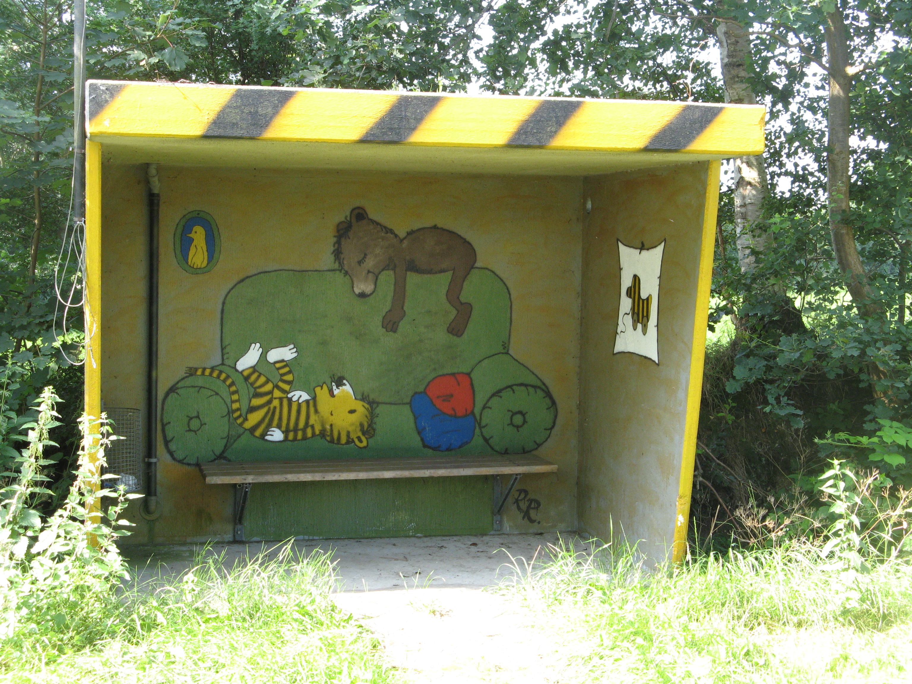 unusual bus stop